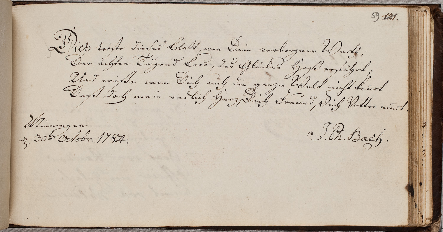 Inscription of Johann Philipp Bach in the Album Amicorum of Carl Heinrich Wilhelm Anthing